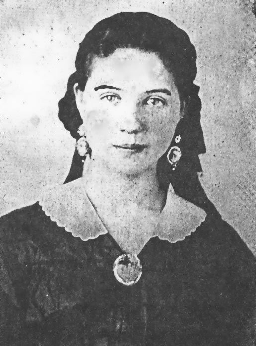 Agnes M. Gilkerson (1838-1881)